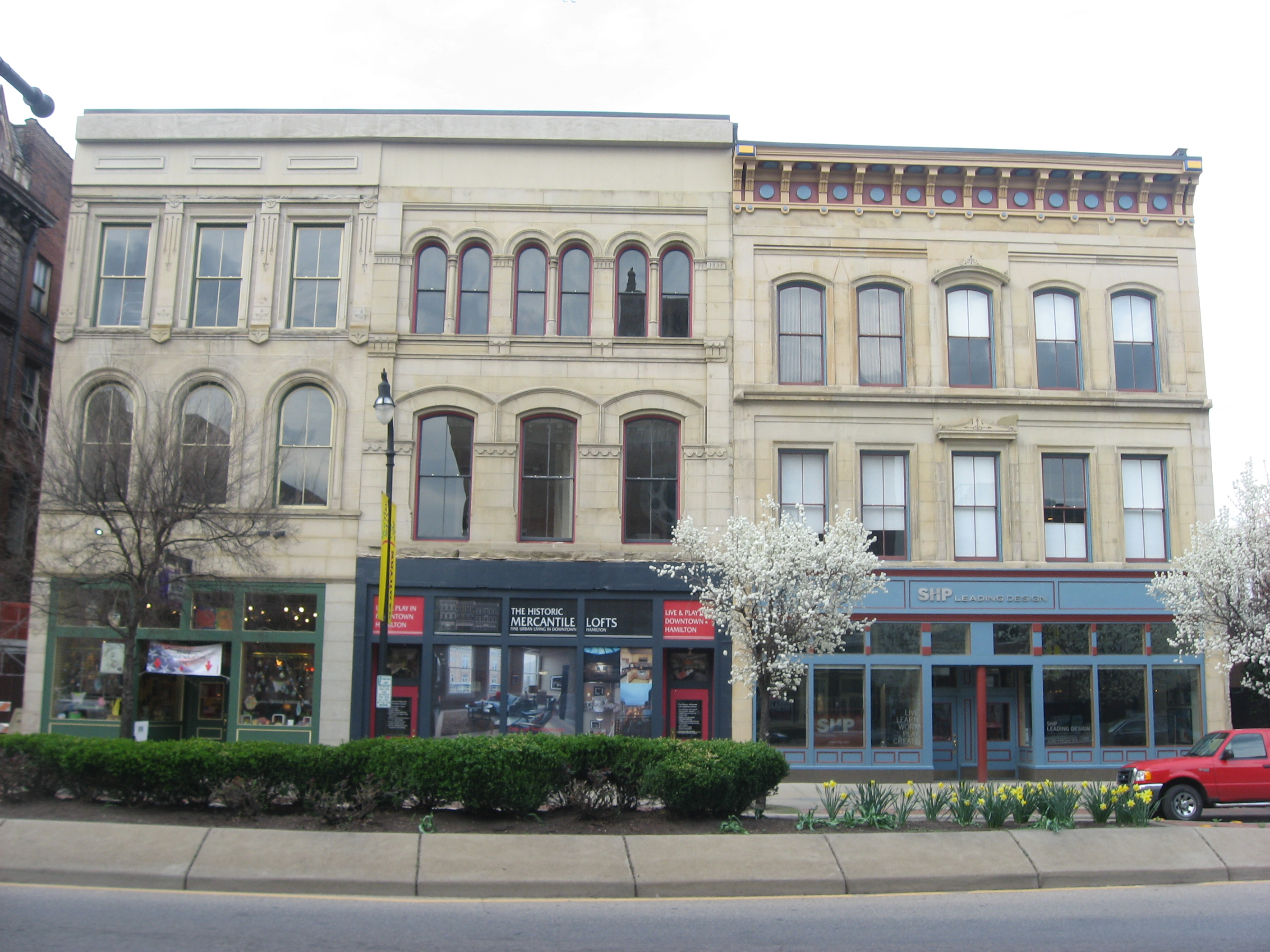 Front of the High Street Commercial Block, located at 228-236 High Street (State Routes 129/177) in downtown Hamilton, Ohio, United States. Built in 1874, it is listed on the National Register of Historic Places.